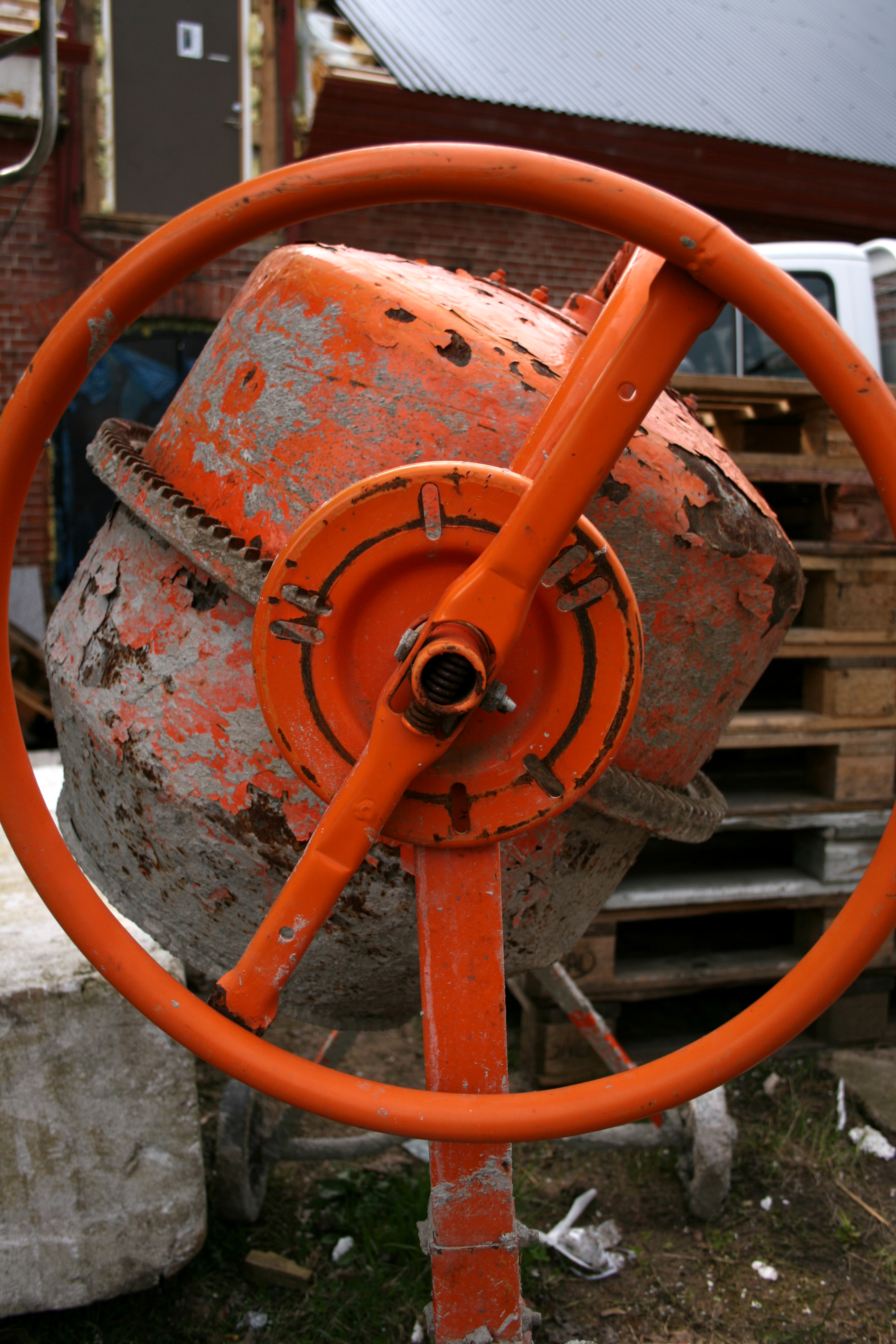 An old rusty cement mixer